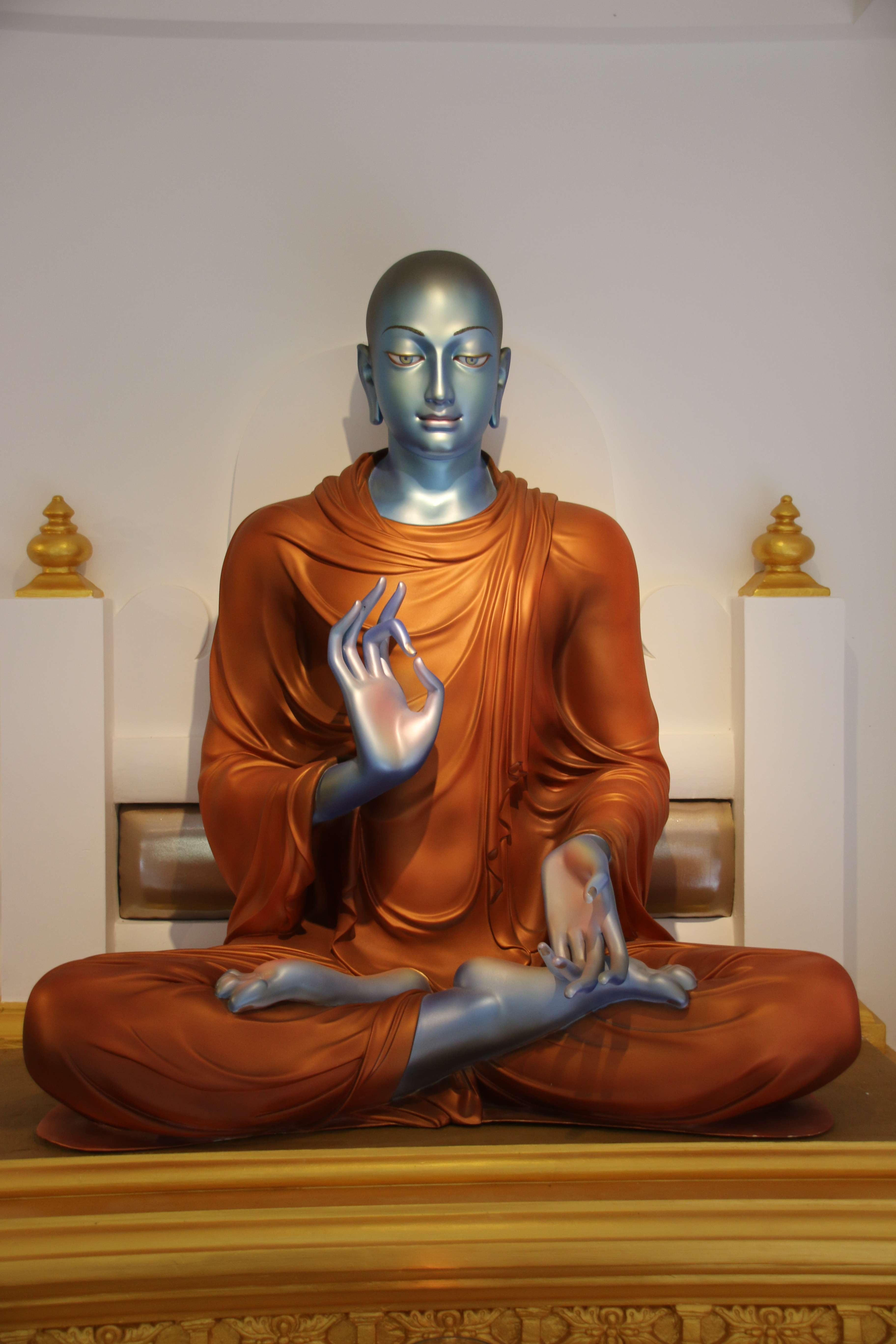 Maha-moggallana